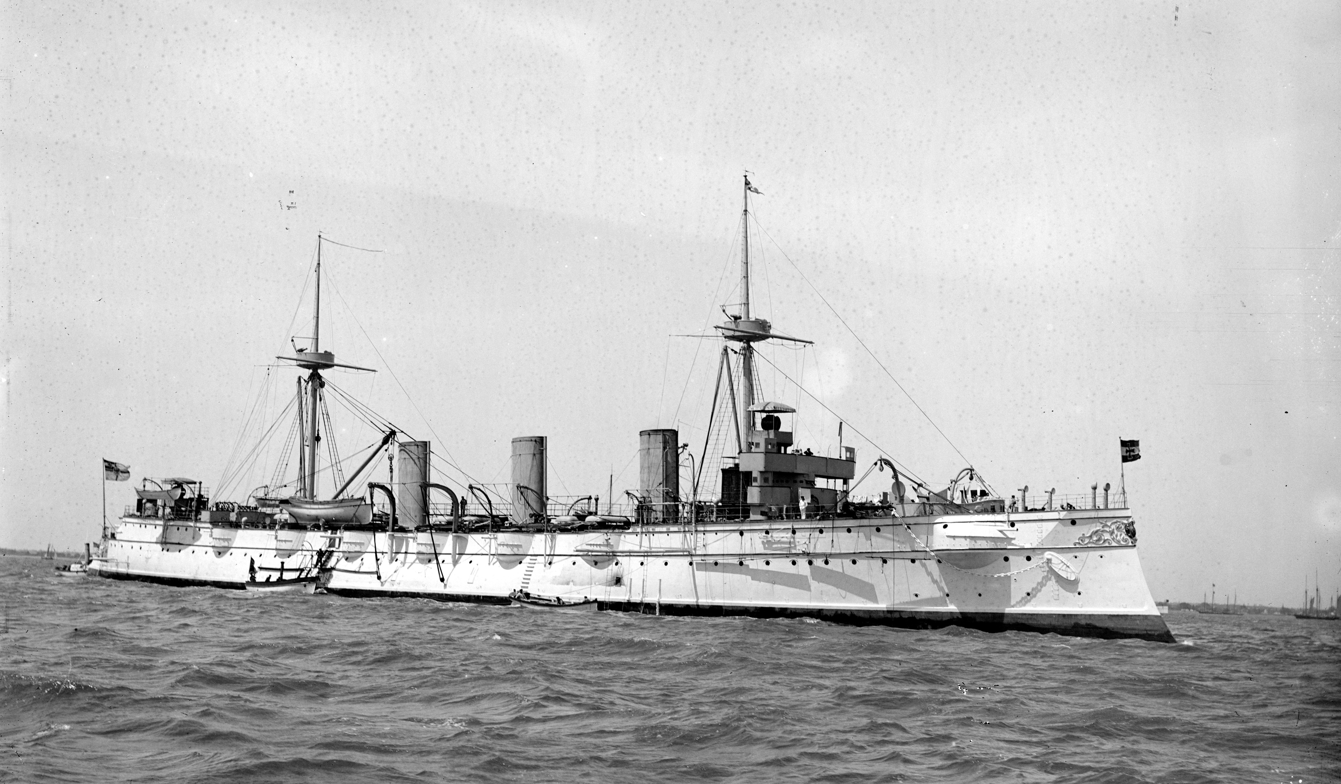 The Imperial German Navy cruiser SMS Kaiserin Augusta in New York (USA) in 1893. The ship arrived with SMS Seeadler on 26 April.